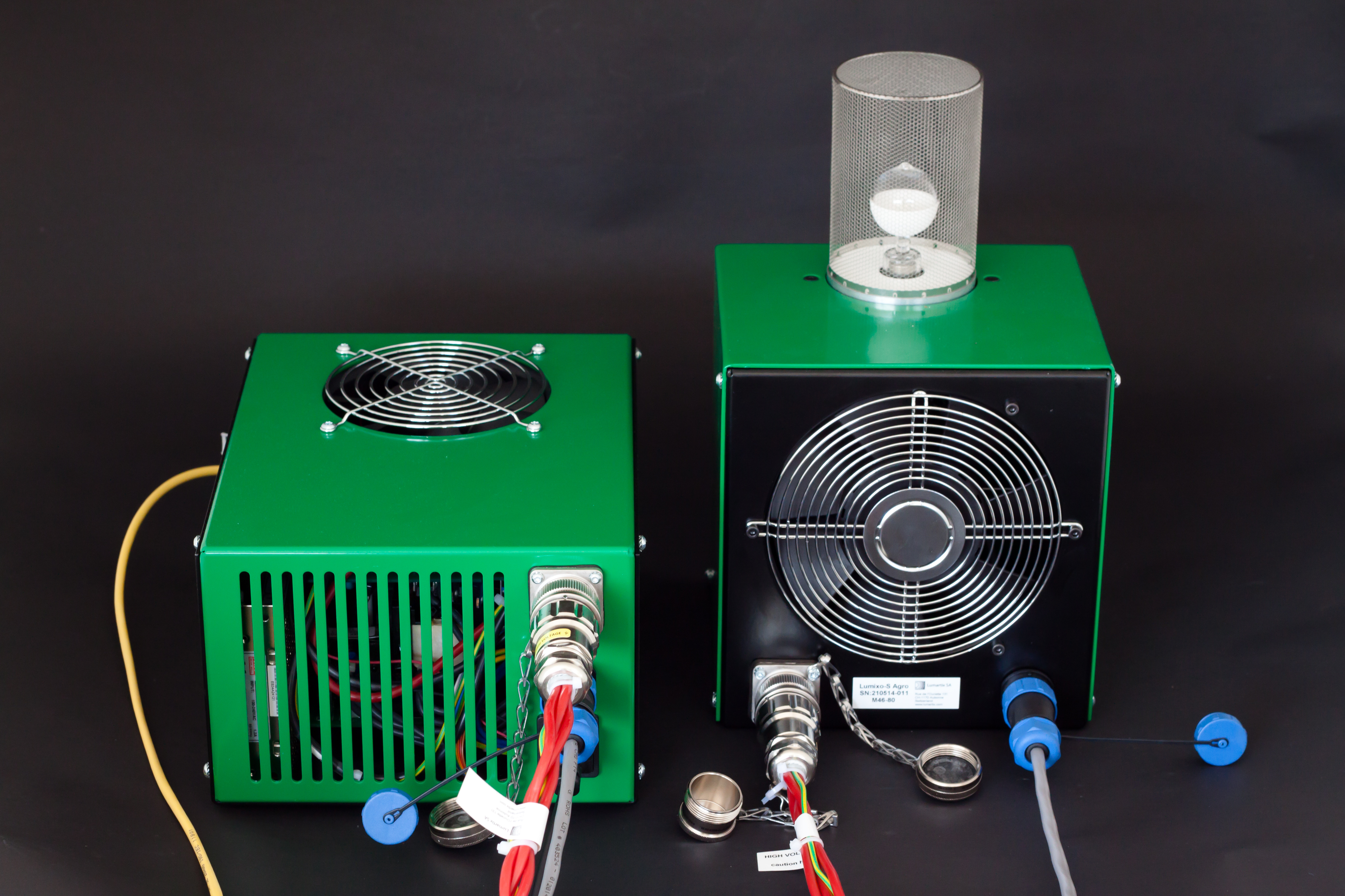 Plasma lamp second generation for agronomy